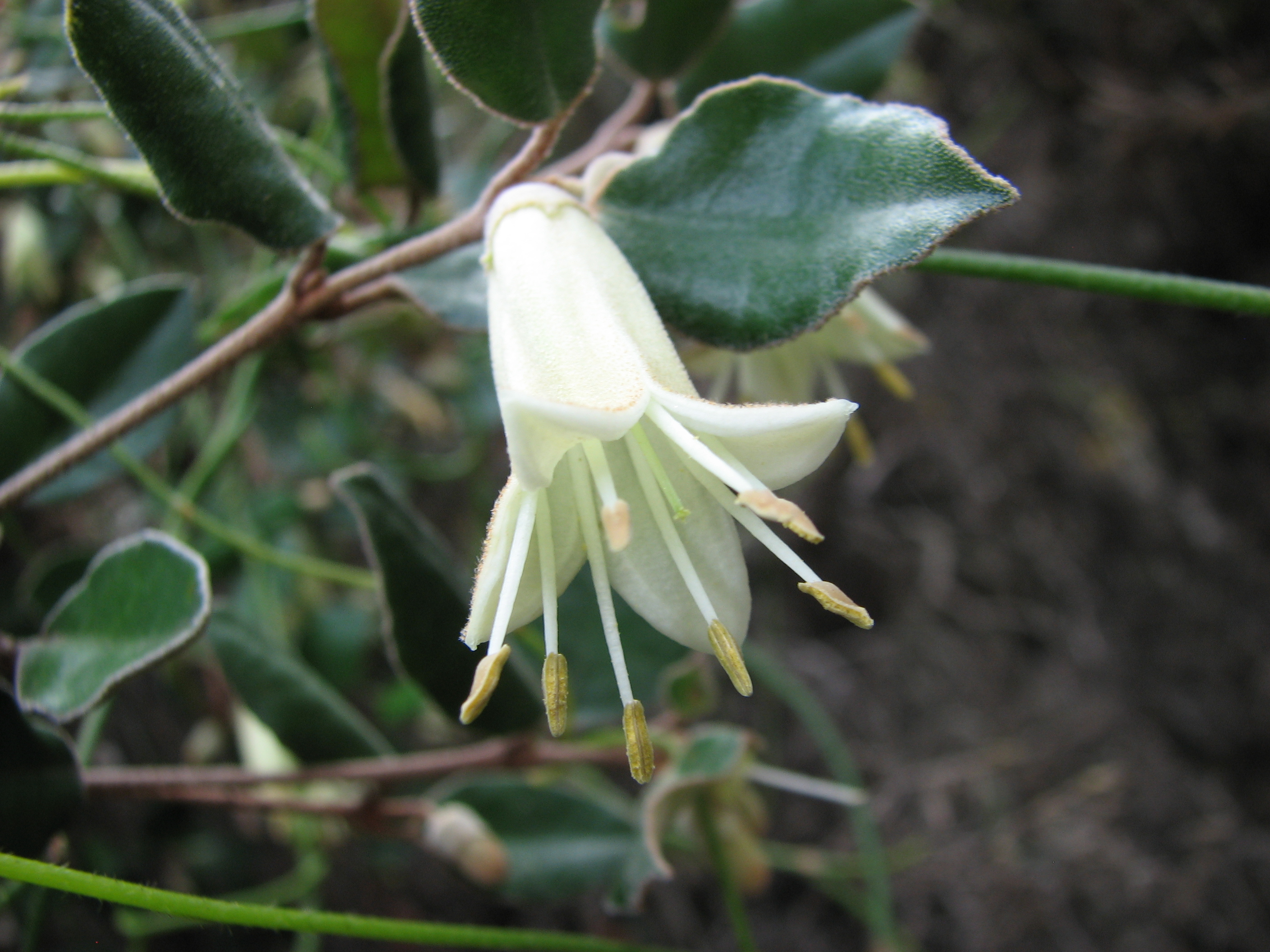 Correa backhouseana, Cape Otway, Victoria, Australia